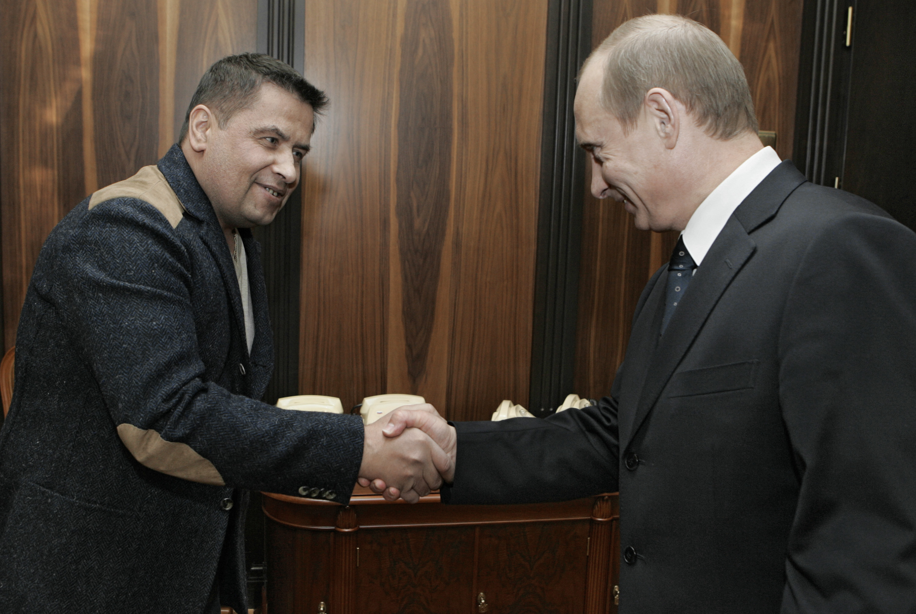 MOSCOW. With lead singer of the group «Lube» Nikolay Rastorguev.